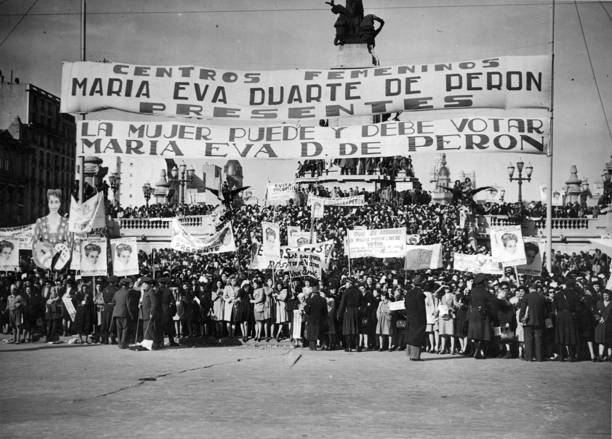 Demonstration in front of the National Congress for the law on Votes for Women, Buenos Aires, 1948